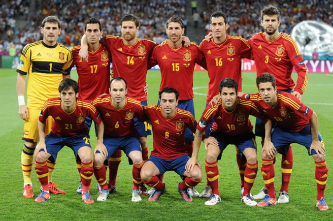 Spain national football team starting XI at Euro 2012 final against Italy